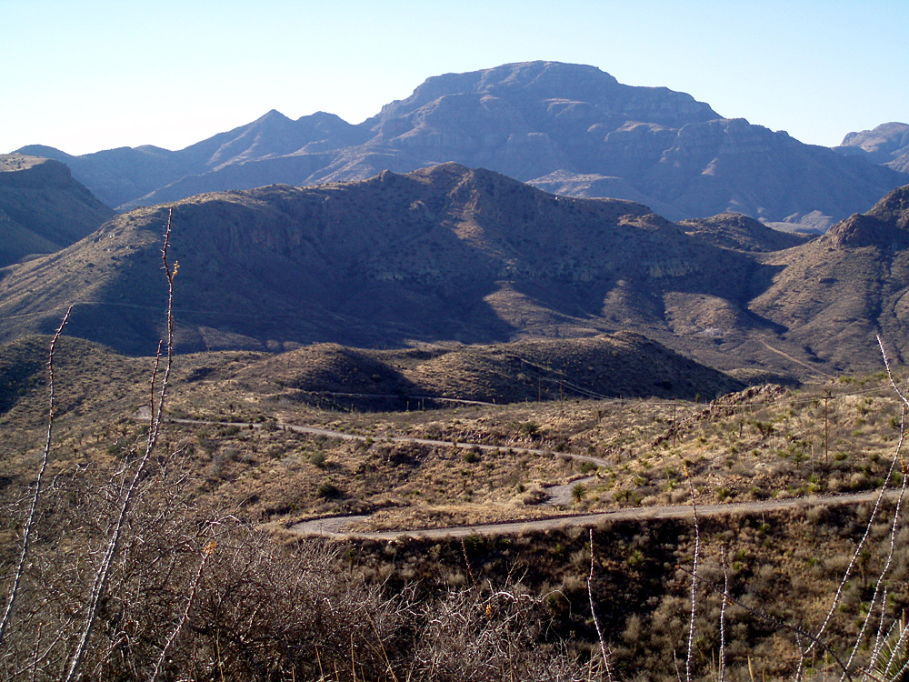 Pinto Canyon County Road in the Chinati Mountains of Presidio County, Texas